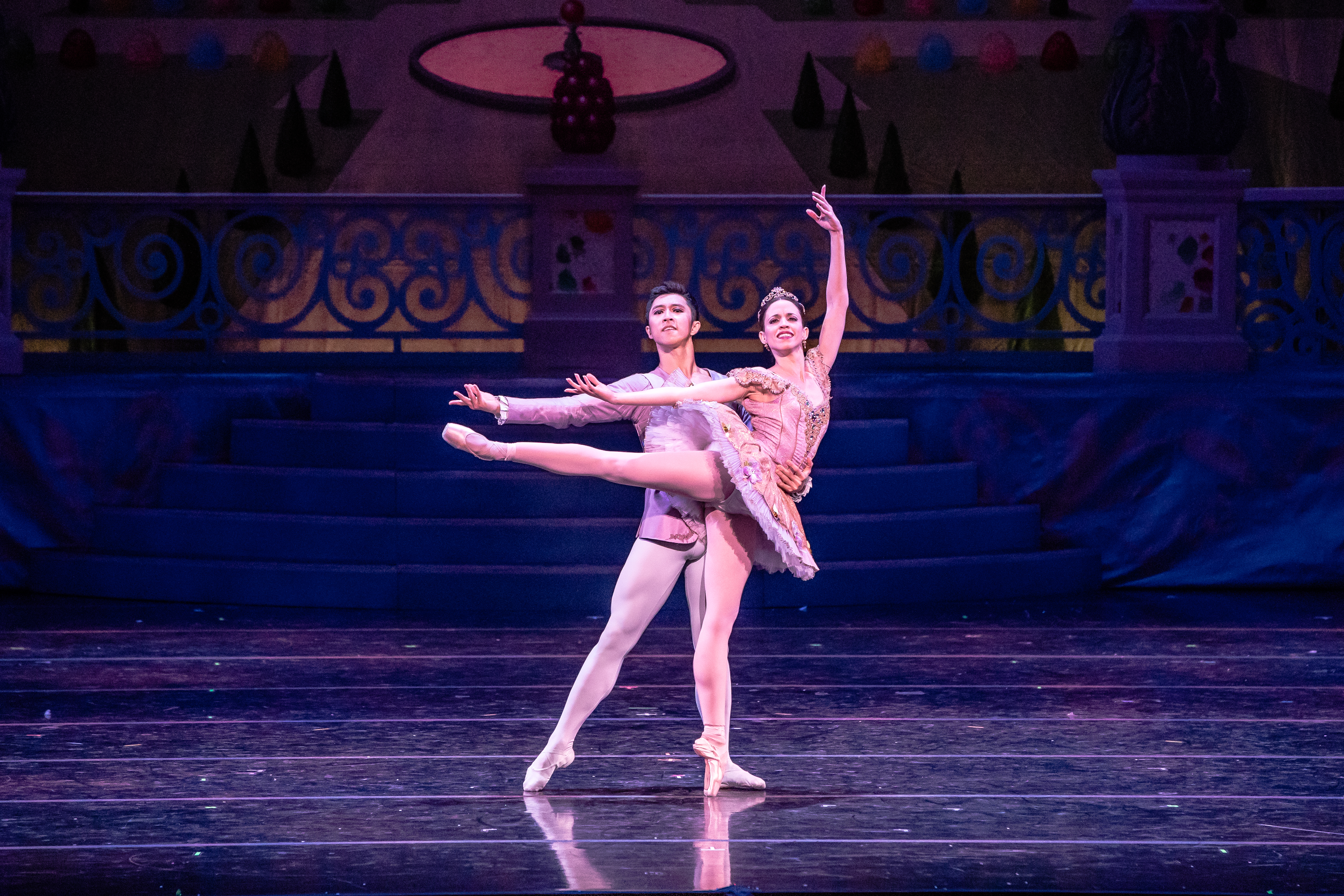 KCB Dancers Amaya Rodriguez & Liang Fu. Photography by Brett Pruitt & East Market Studios.